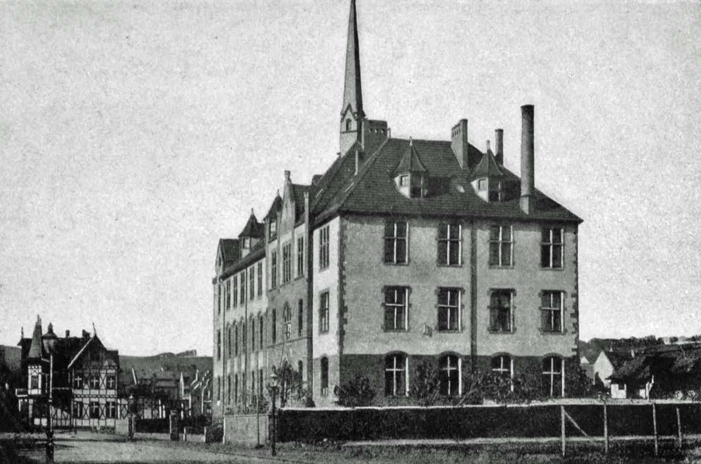 Hospital Evangelisches Stift St. Martin in Koblenz